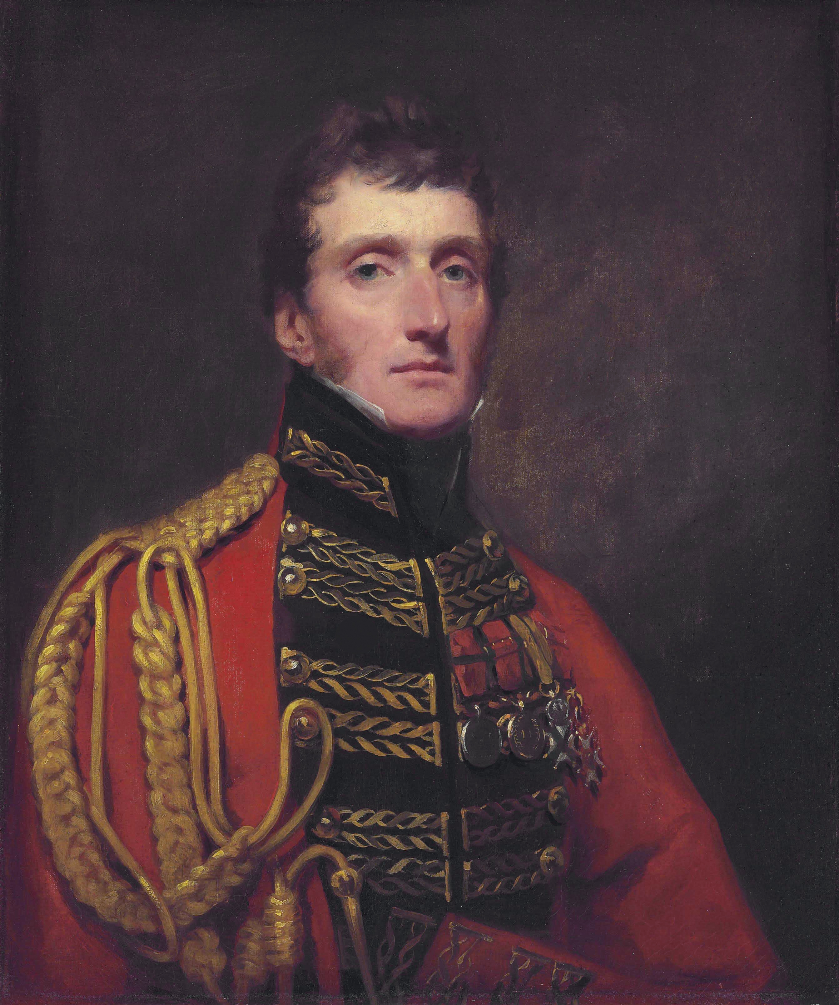 Lieutenant General William Stuart (1778 - 1837) oil on canvas 76.2 x 63.5 cm 19th century